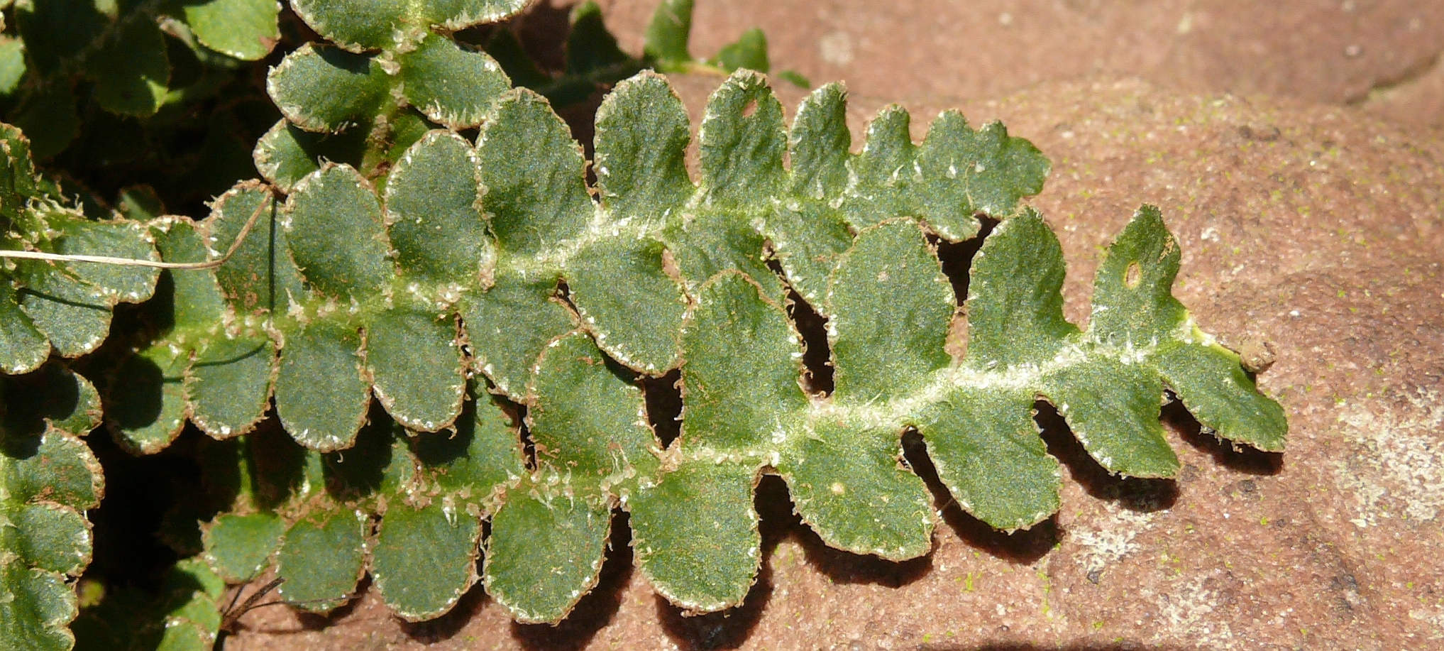 Asplenium ceterach, Spessart, Germany